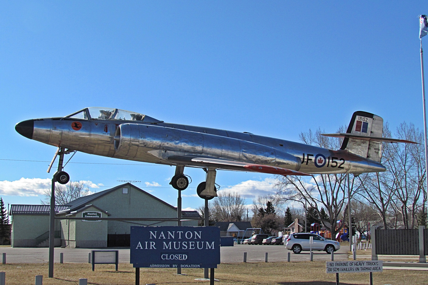 Avro Canada CF-100 "Canuck" MK111D – Serial No. 18152. Manufactured at Malton, Ontario, 1954. Served with #3 Op. Training Unit, 428 Squad, 432 Squad., and the Electronic Warfare Unit. Stationed at CFB Suffield (1968 – 1994). Currently on display at the Nanton Air Museum, Nanton, Alberta.